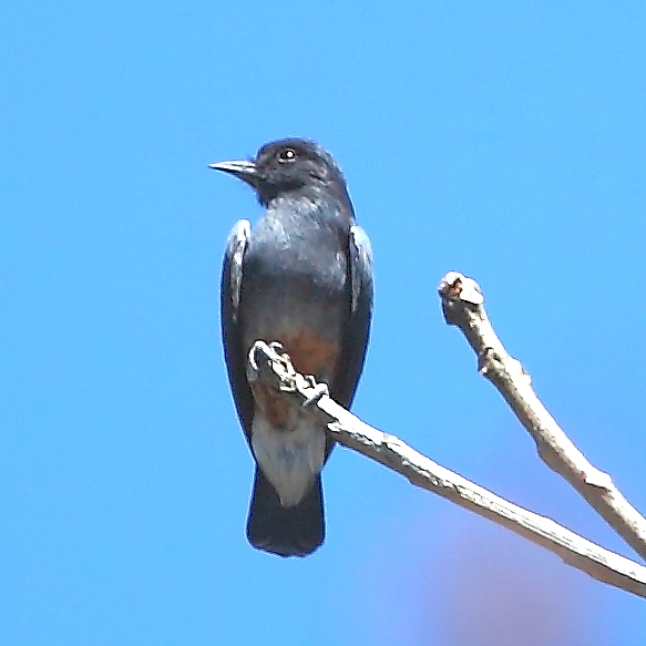 Swallow-winged Puffbird at Cristalino river - MT - Brazil